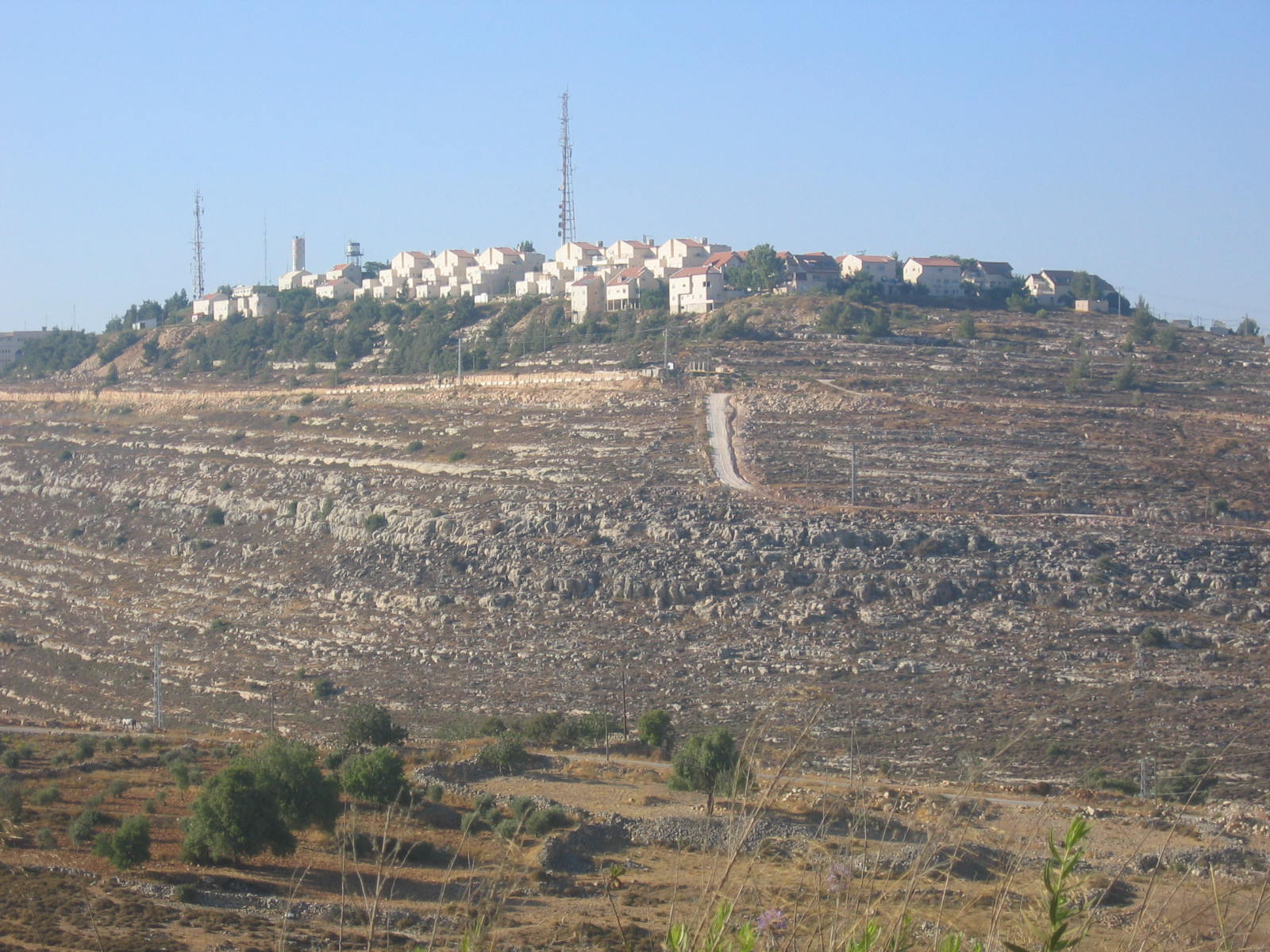 by Ramallite. View of Psagot settlement outside of Ramallah.